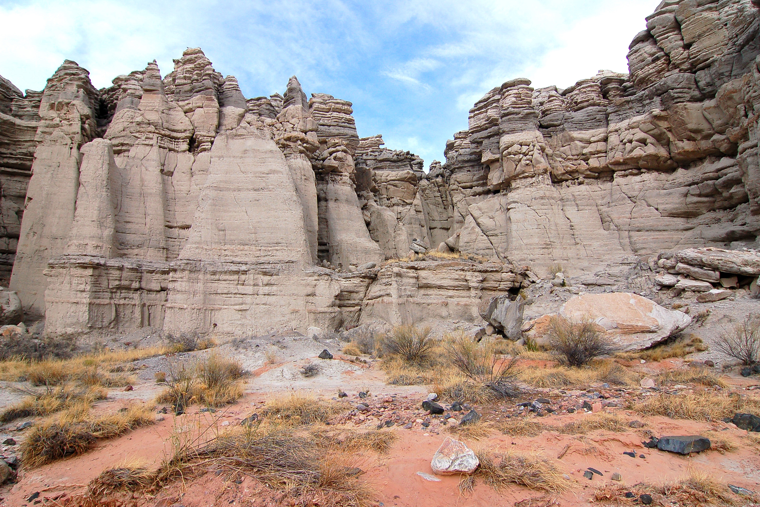 Near Abiquiu, NM. Georgia O'Keeffe referred to this as the White Place.